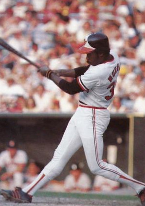 Professional baseball player Eddie Murray